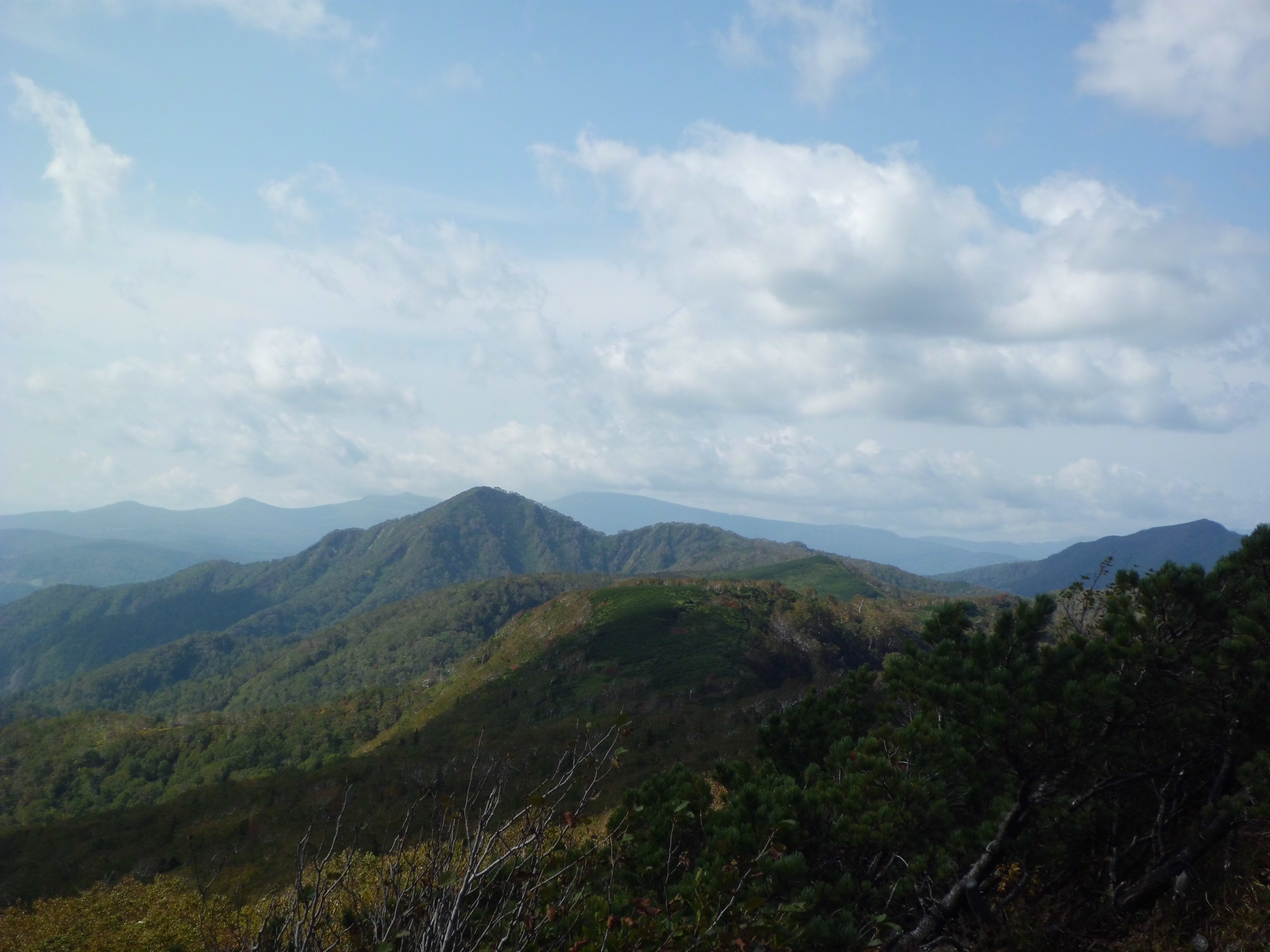 Mount Sausu looking from the summit of Mount Soranuma